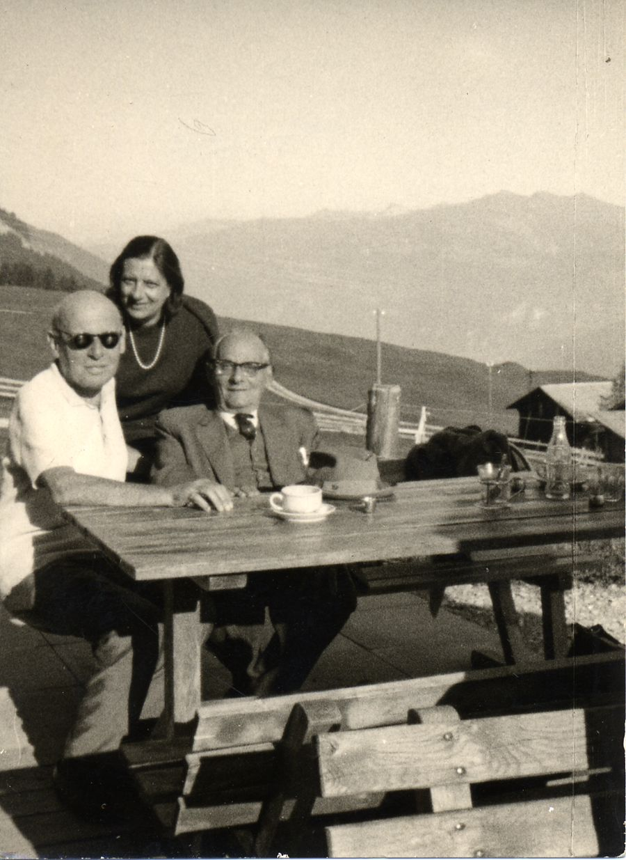 The composer, Paul Ben Haim, his wife Heli and Max Brod, MUS 055 / M40